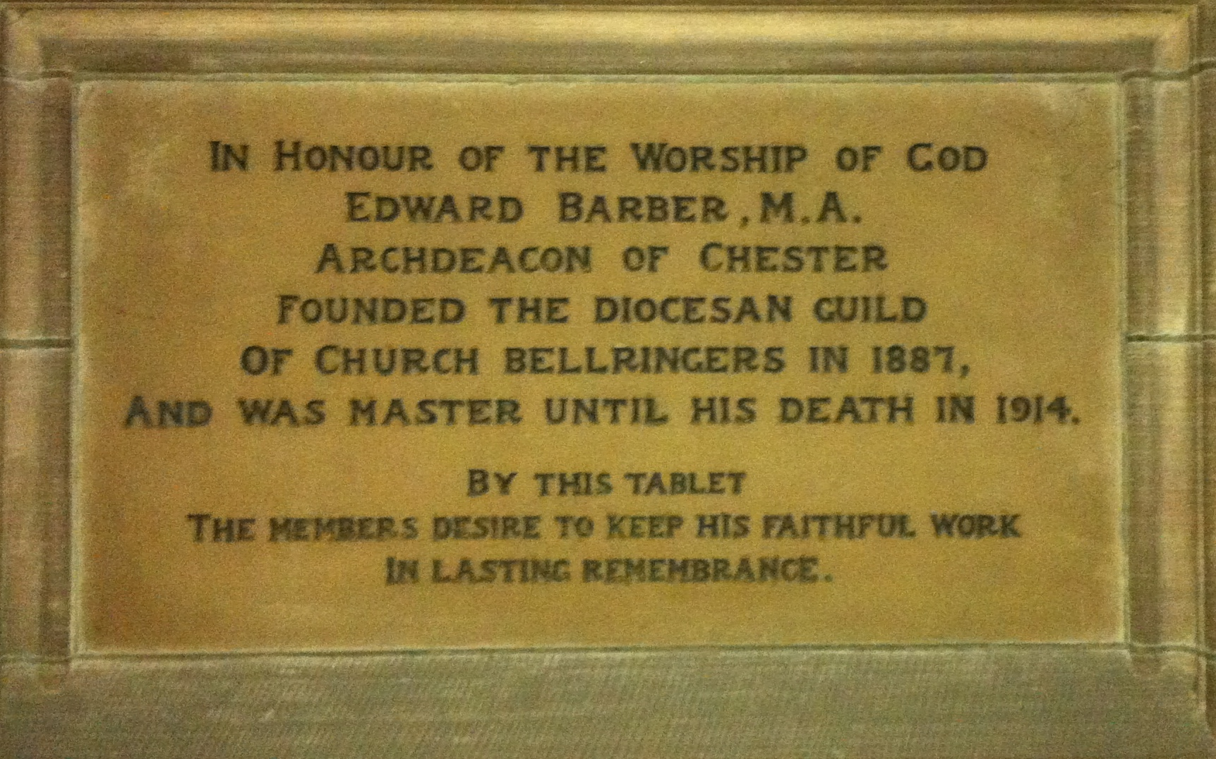 Edward Barber MA. Archdeacon of Chester. Founded the Diocesan Guild of Church Bellringers in 1887 and was master until his death in 1914.